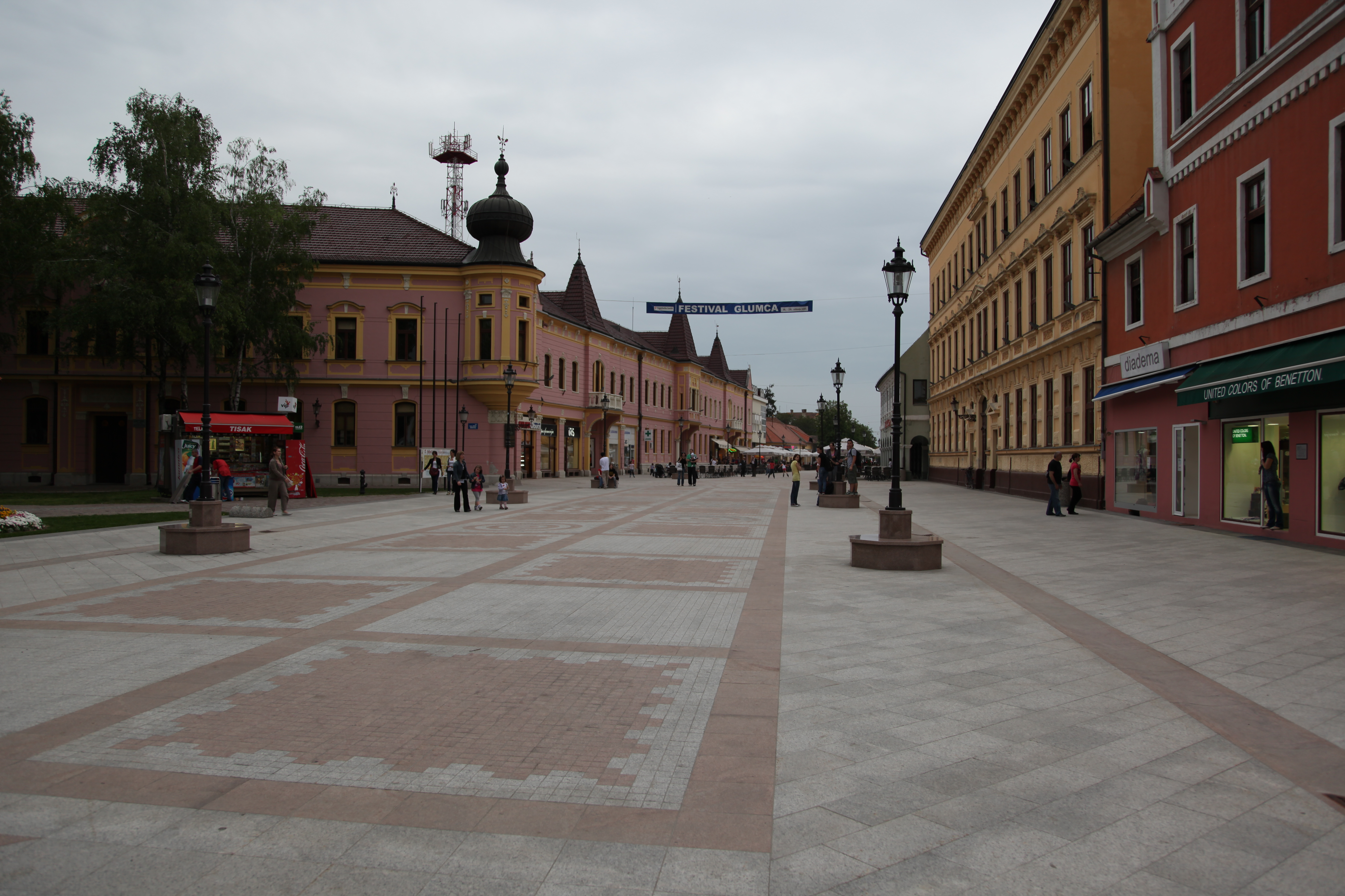 Town center of Vinkovci, Croatia.